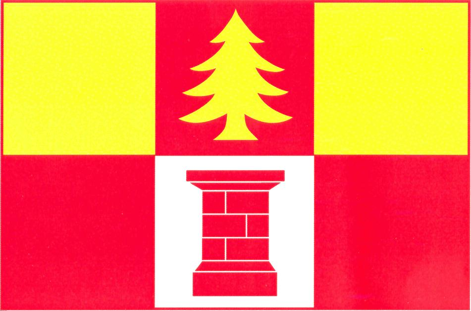 Municipal flag of Nučice , District Prague East, Czech Republic